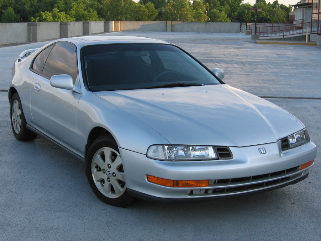 Author: Chett Earnheart